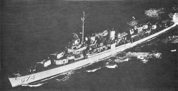 The U.S. Navy destroyer USS Hunt (DD-674) underway at sea, in 1959.